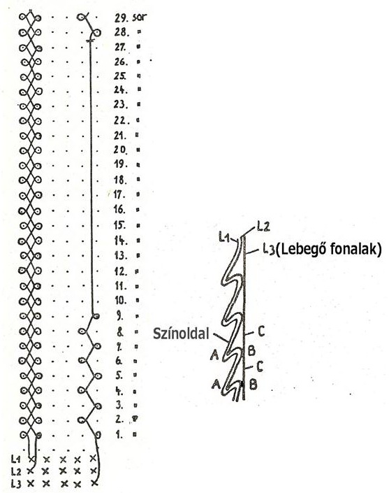 Warp knitted pleat